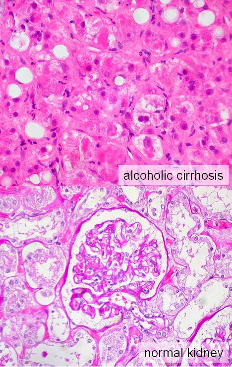 Pathology images demonstrating alcoholic cirrhosis as manifested as Mallory's hyaline, steatosis and some fibrous septae on H+E stain, and a normal glomerulus and surrounding tubules on PAS stain. Used to demonstrate the altered hepatic pathology (with alcoholic cirrhosis being the most common etiology) but normal renal pathology in hepatorenal syndrome.